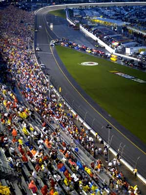 The view from the 500 Club at Daytona International Speedway where Secretary of Defense Donald H. Rumsfeld sat during the Pepsi 400.